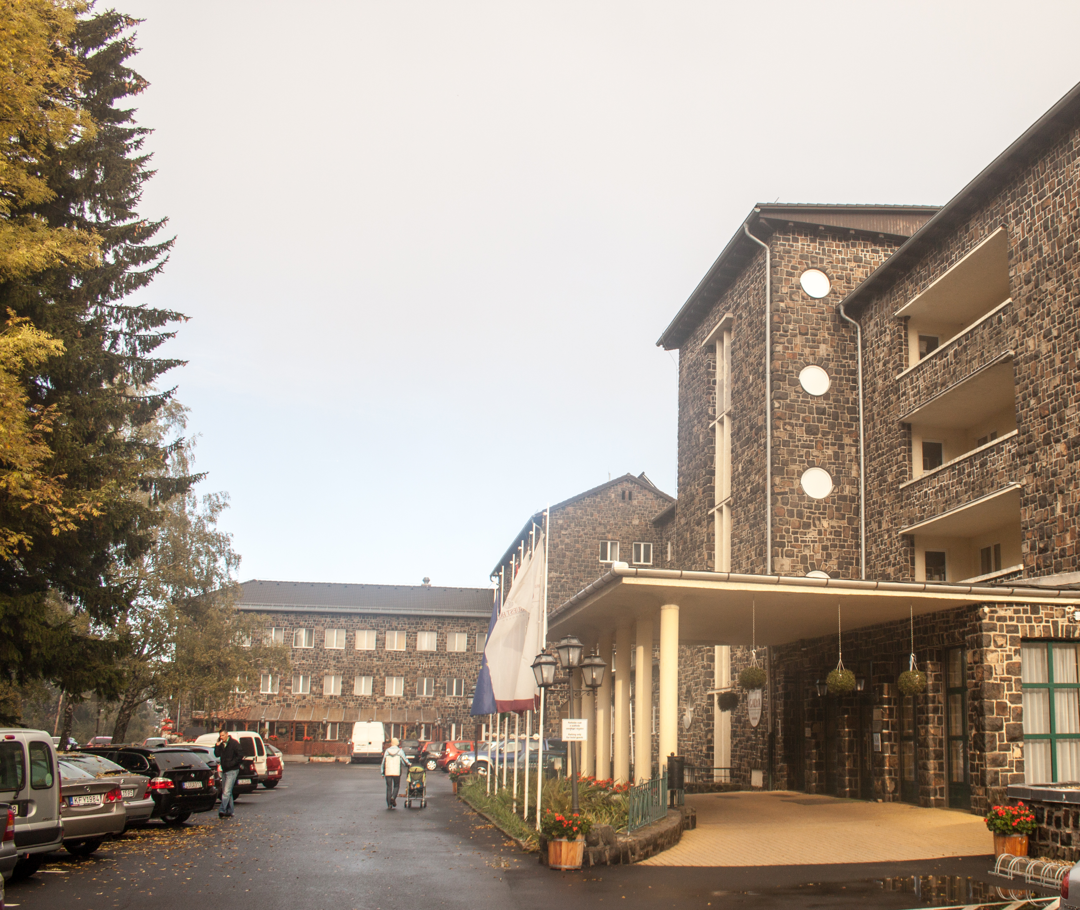 Entrance of the Grand Hotel Galya